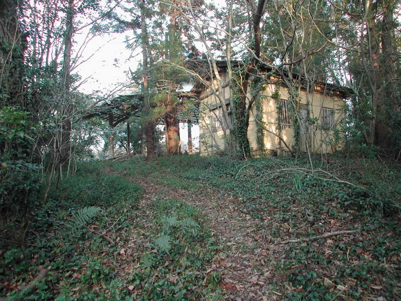 The Fukuoka family farm's shady maturing woodland hill below one of the huts and the pagoda.[former land of Masanobu Fukuoka (1913-2008)]